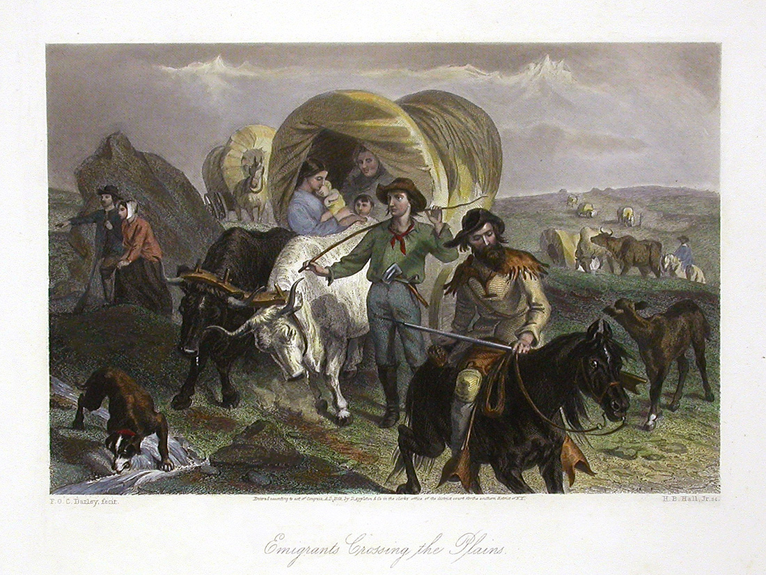 Plate from "Picturesque America", Emigrants Crossing the Plains